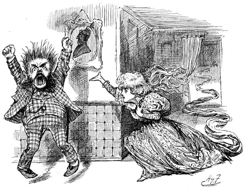 Illustration by Harry Furniss in Sylvie and Bruno Concluded. Chapter 16, caption: "'Never!' yelled Tottles".